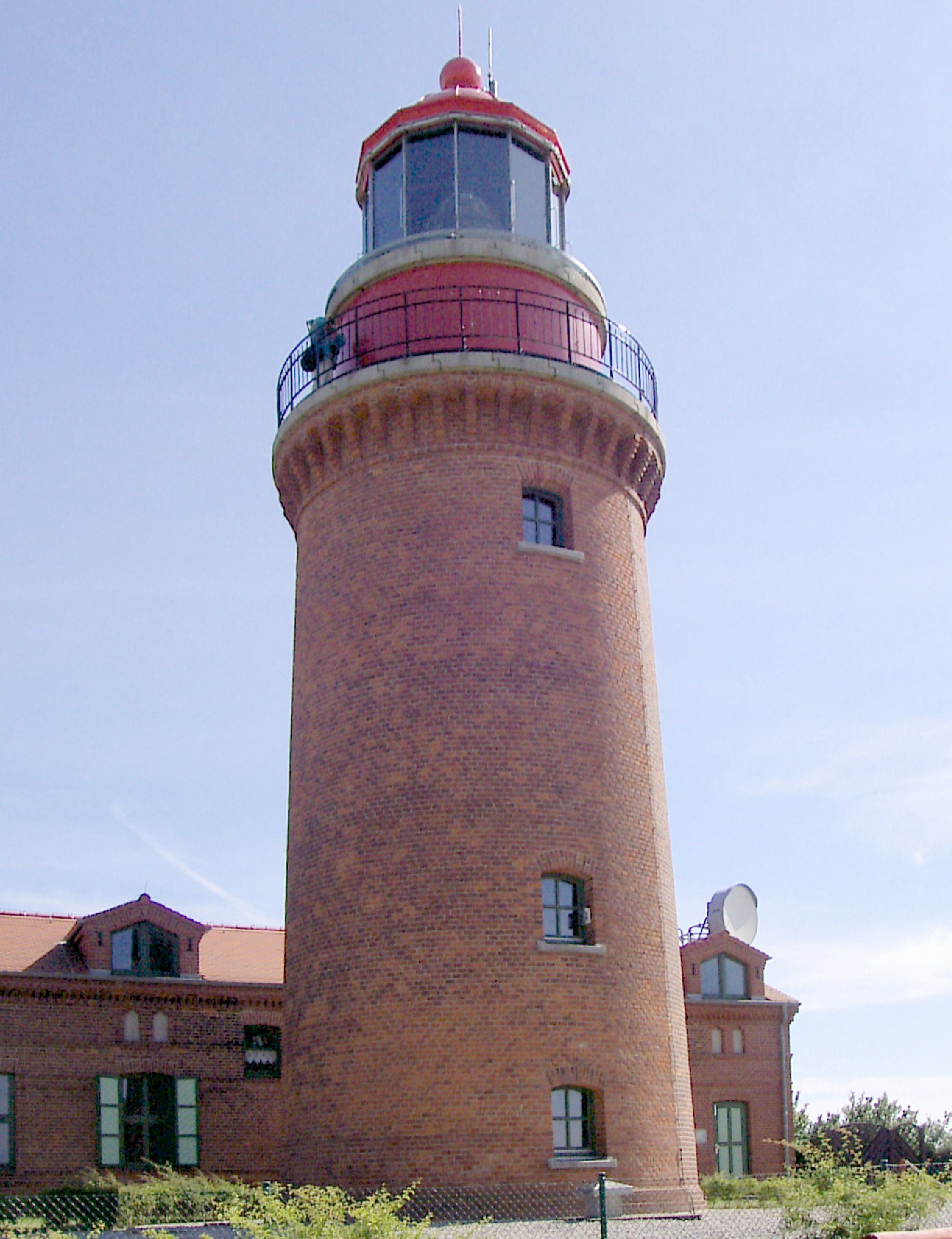 Bastorf Lighthouse, Germany